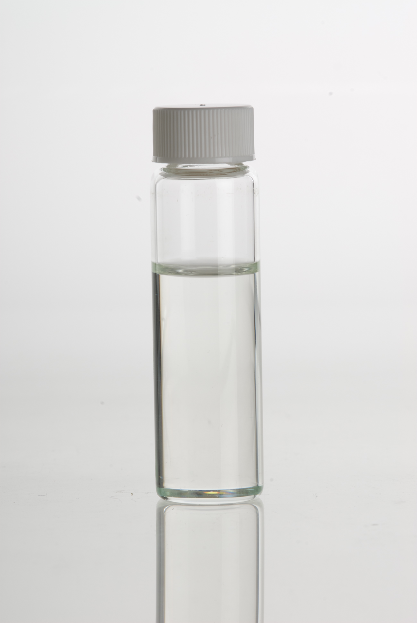 Melaleuca Quinquenervia Essential Oil in clear glass vial